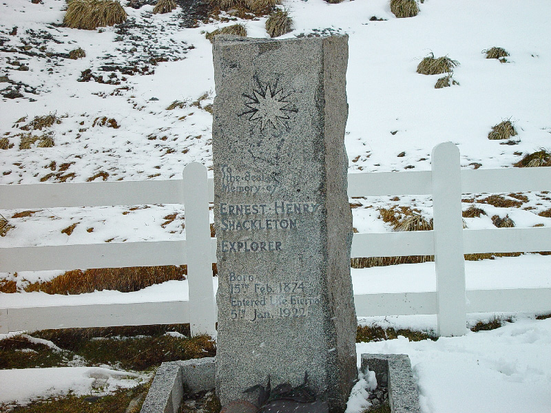 The grave of Ernest Shackleton, Grytviken Cemetery, South Georgia.